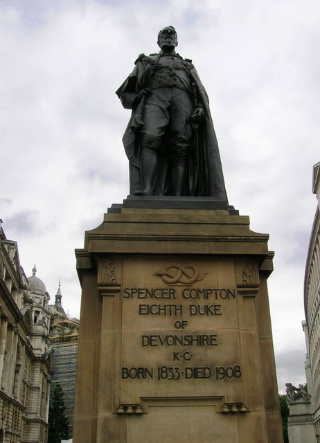 At the junction with Whitehall SW1. Spencer Compton Cavendish (1833-1908) Politician, Duke from 1891